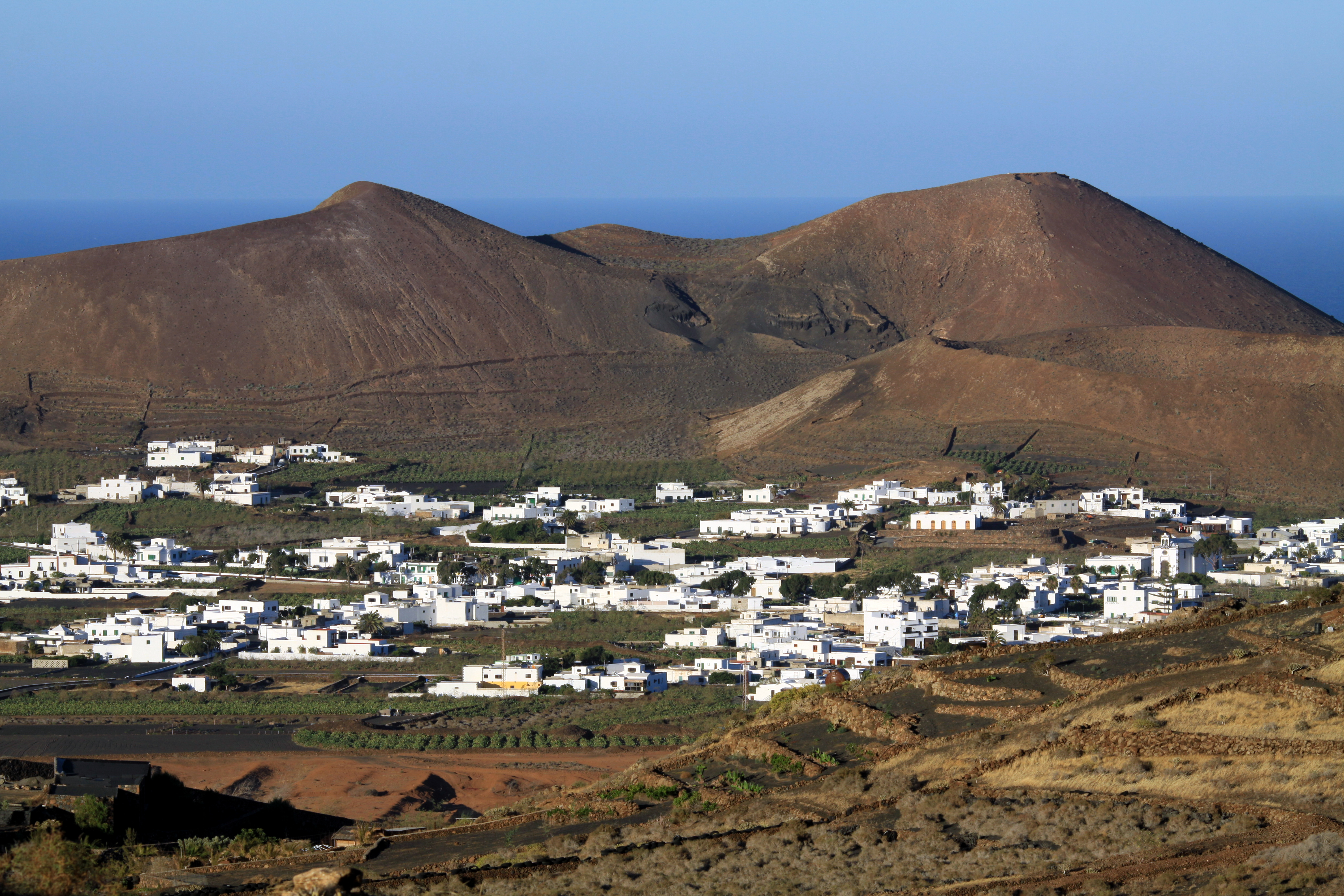 Guatiza village on Lanzarote, The Canary Islands, Spain - Google Maps - Google Earth